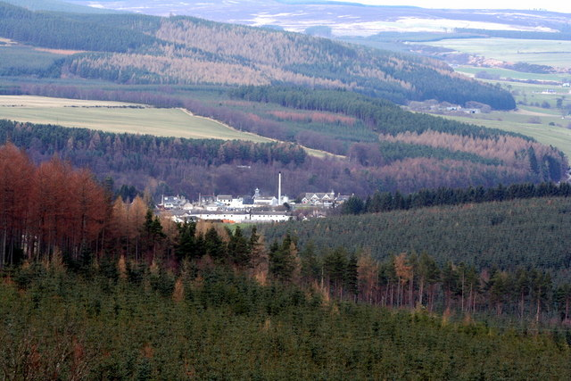 Craigellachie Craigellachie and distillery taken from end of Blue Hill